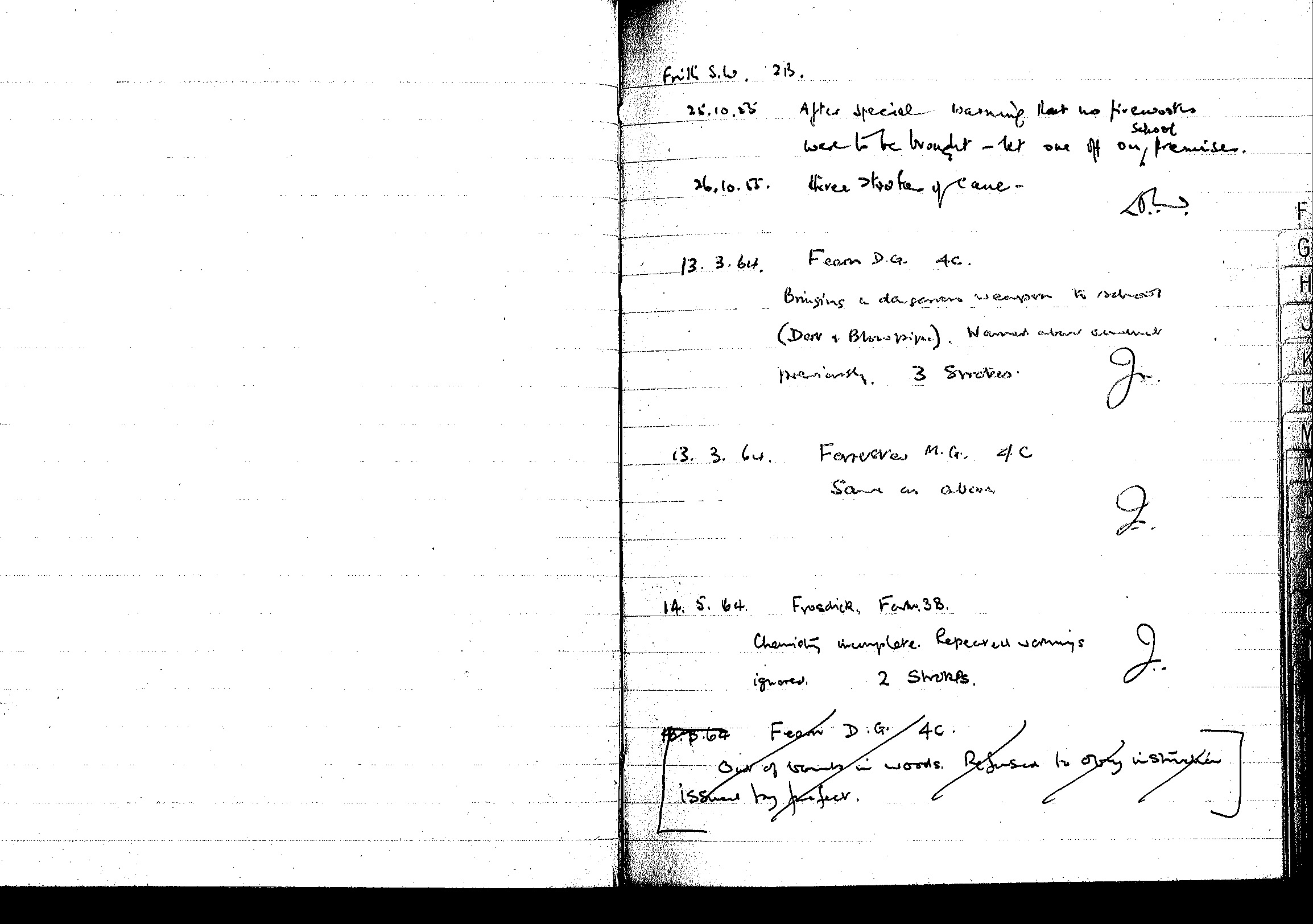 Caning Log for Wilmington Grammar School for Boys